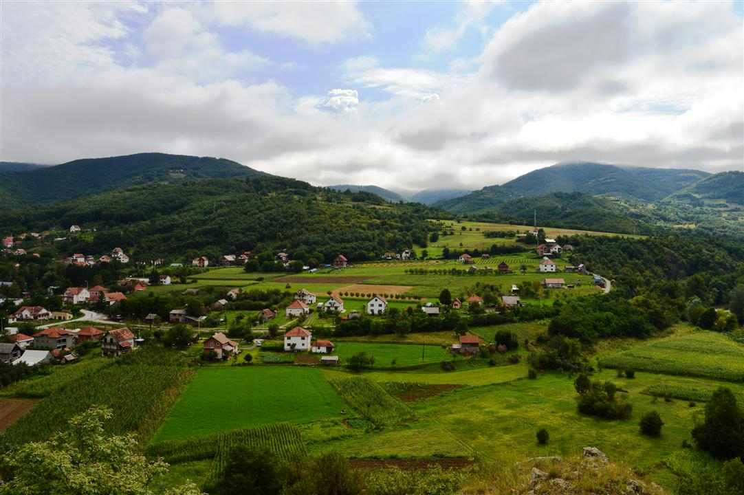 Raska Municipality -Brvenik